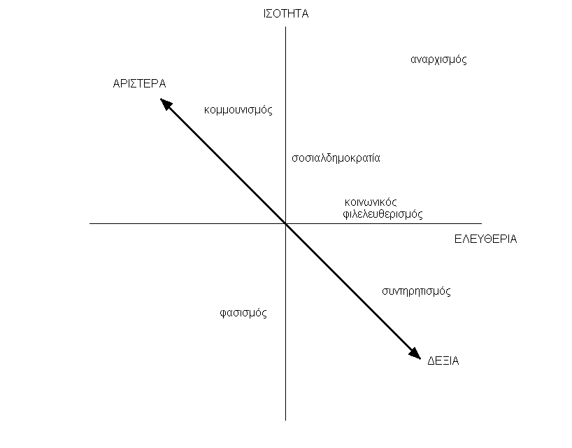 political spectrum